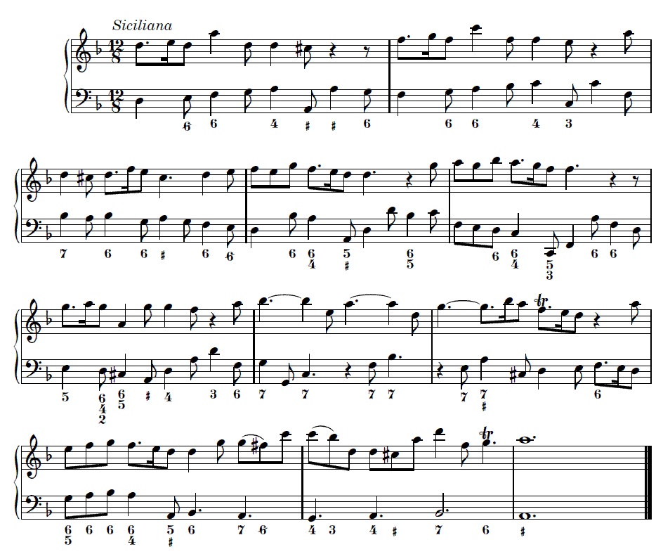 Siciliana from G. F. Haendel's sonata op.1, 11